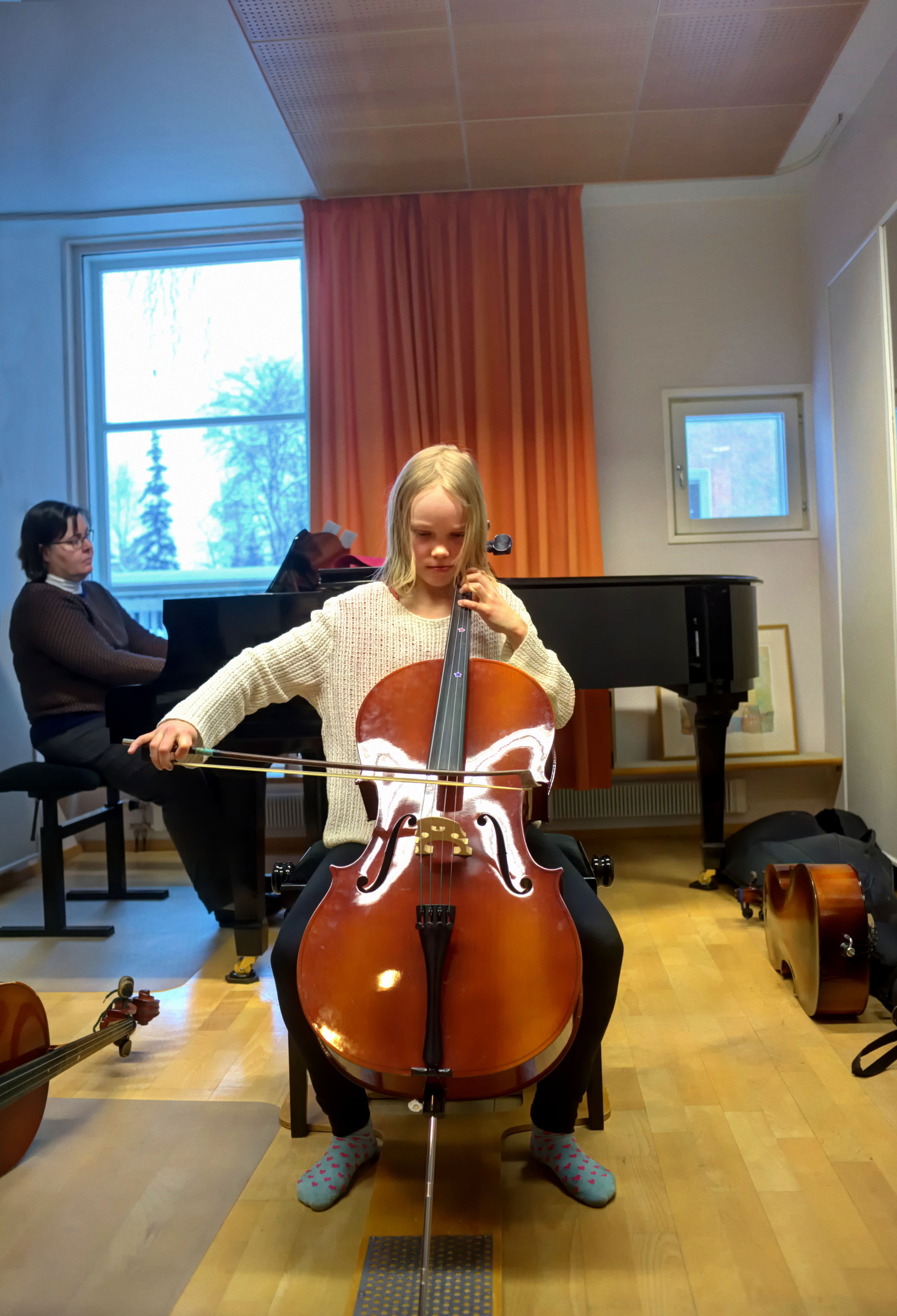 Young cellist with a piano accompanist